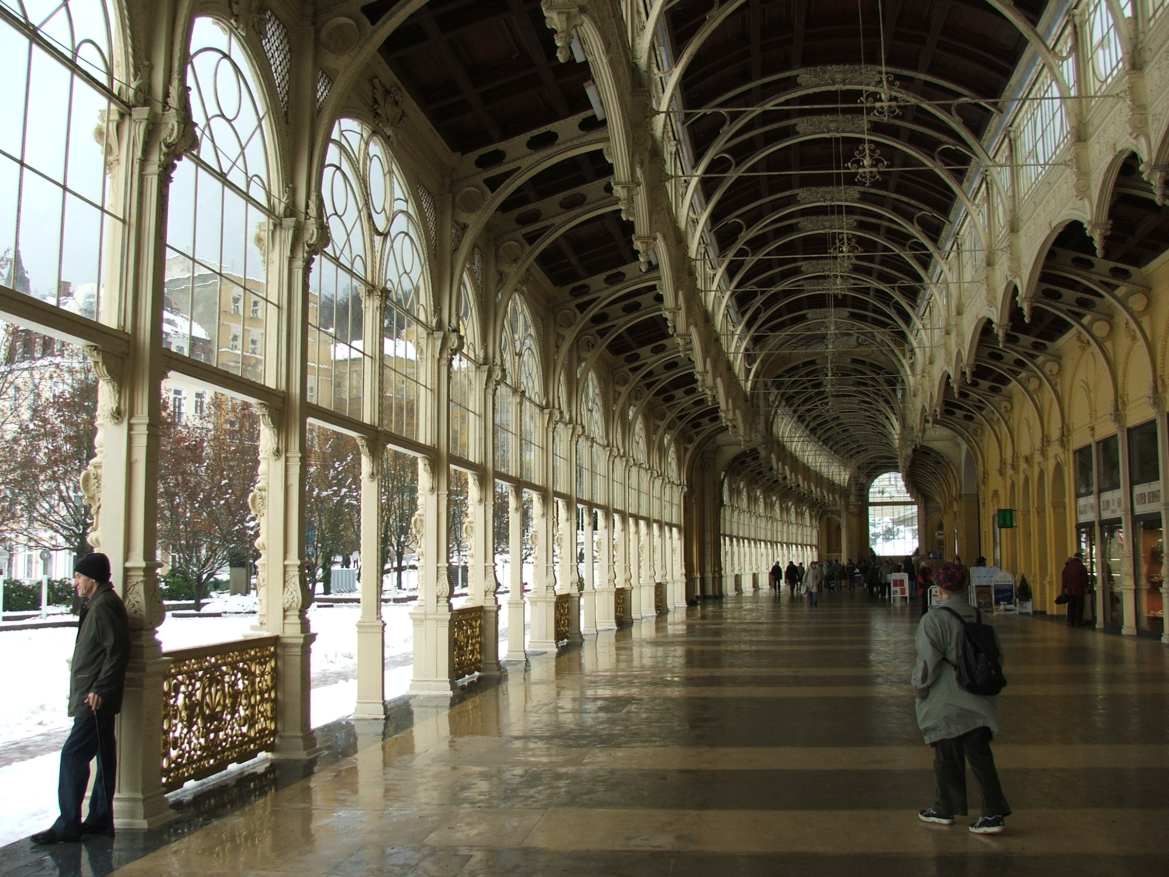 Colonnade in Mariánské Lázně (Marienbad), Czechia.